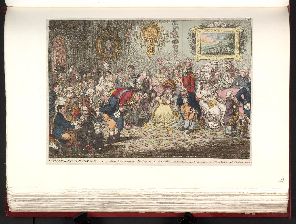 Satire on the Whig opposition. (Version published in London und 6Paris.); A satire on the Opposition groups forming around Fox and the Prince of Wales, the prospect of a Regency, and an anticipation of the Broad-bottom or Coalition ministry of 1806.; London und Paris, xiii. 1805. No. III